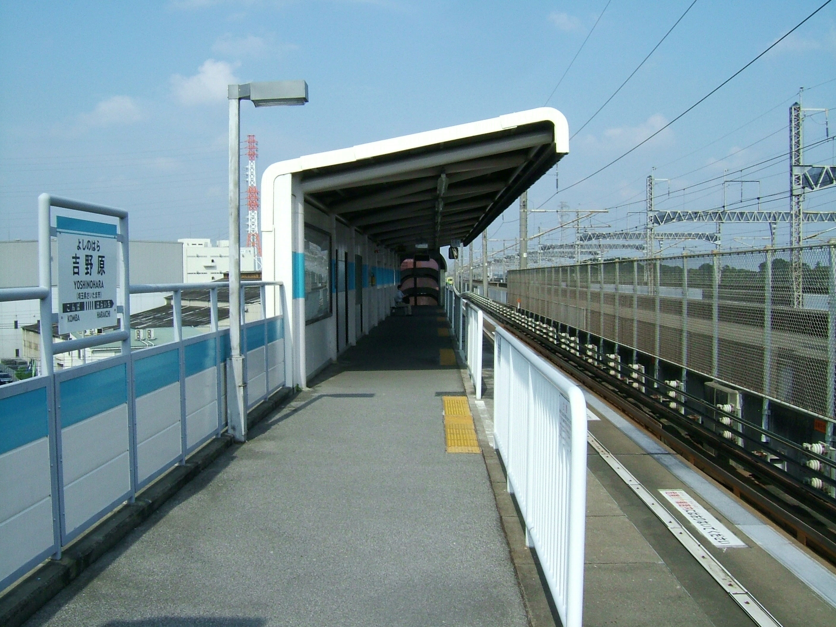 Yoshinohara Station no.1 platform(The "New Shuttle")